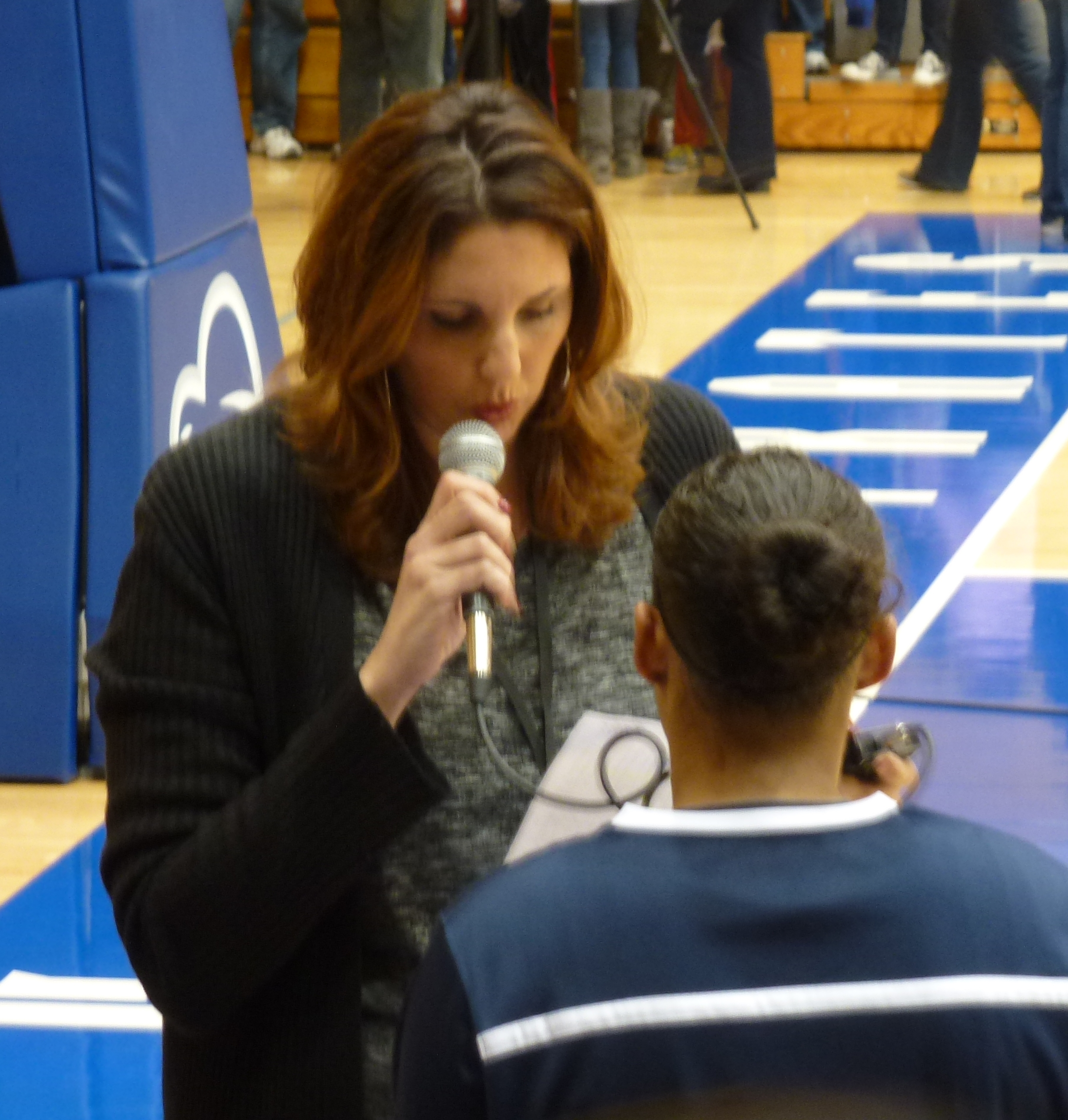 Kara Wolters, interviewing Kaleena Mosqueda Lewis, at Seton Hall game in South Orange NJ, 9 December 2011